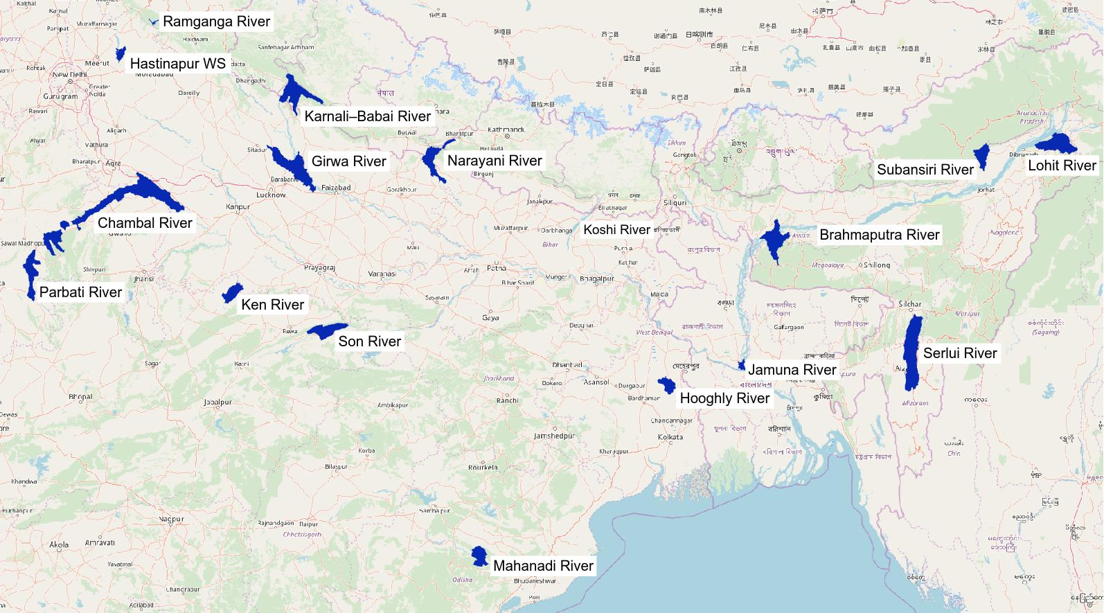 Gharial distribution according to IUCN Red List 2019 (Lang et al. 2019)